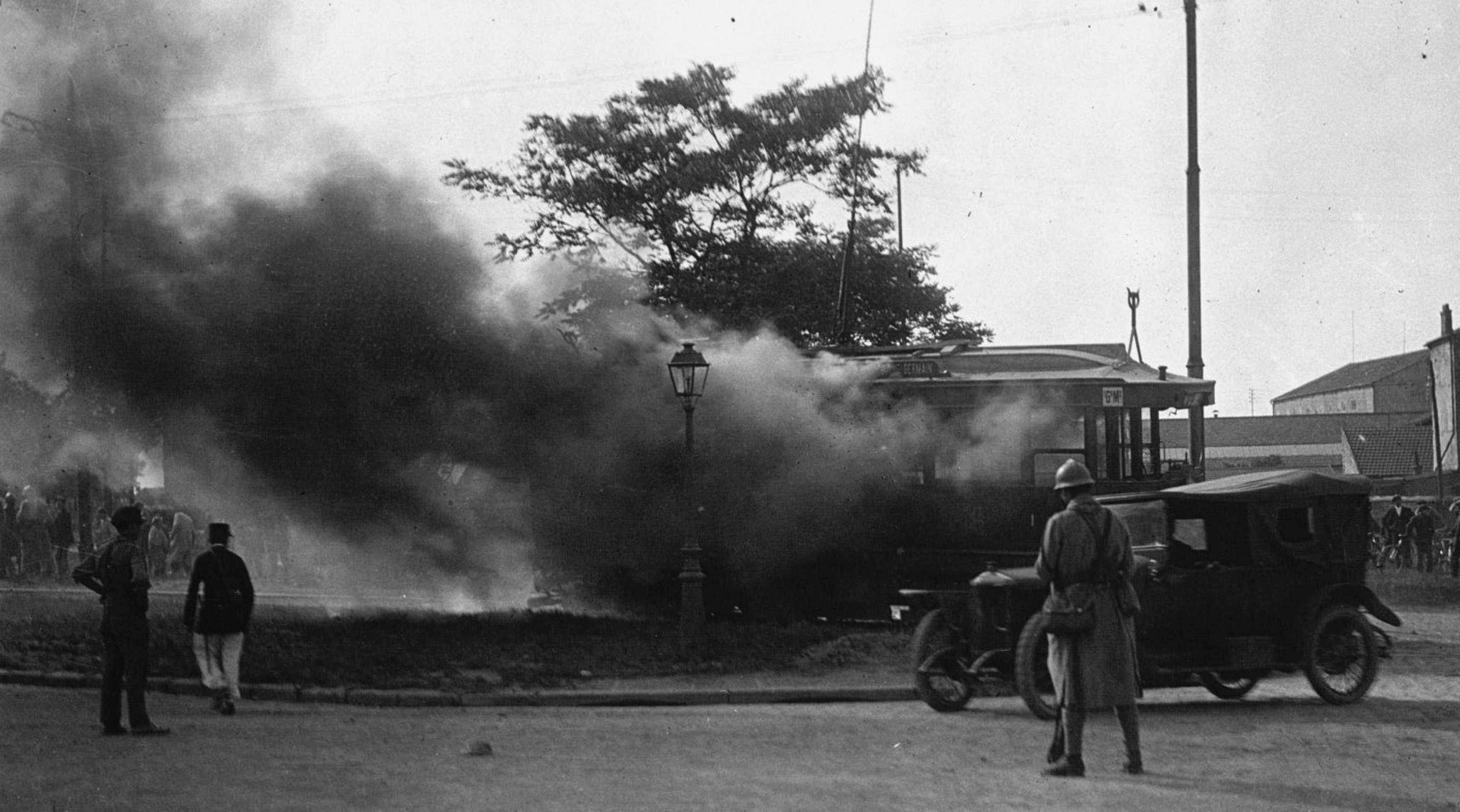 Strike of 1919 in France. Fire a light rail line St. Germain.